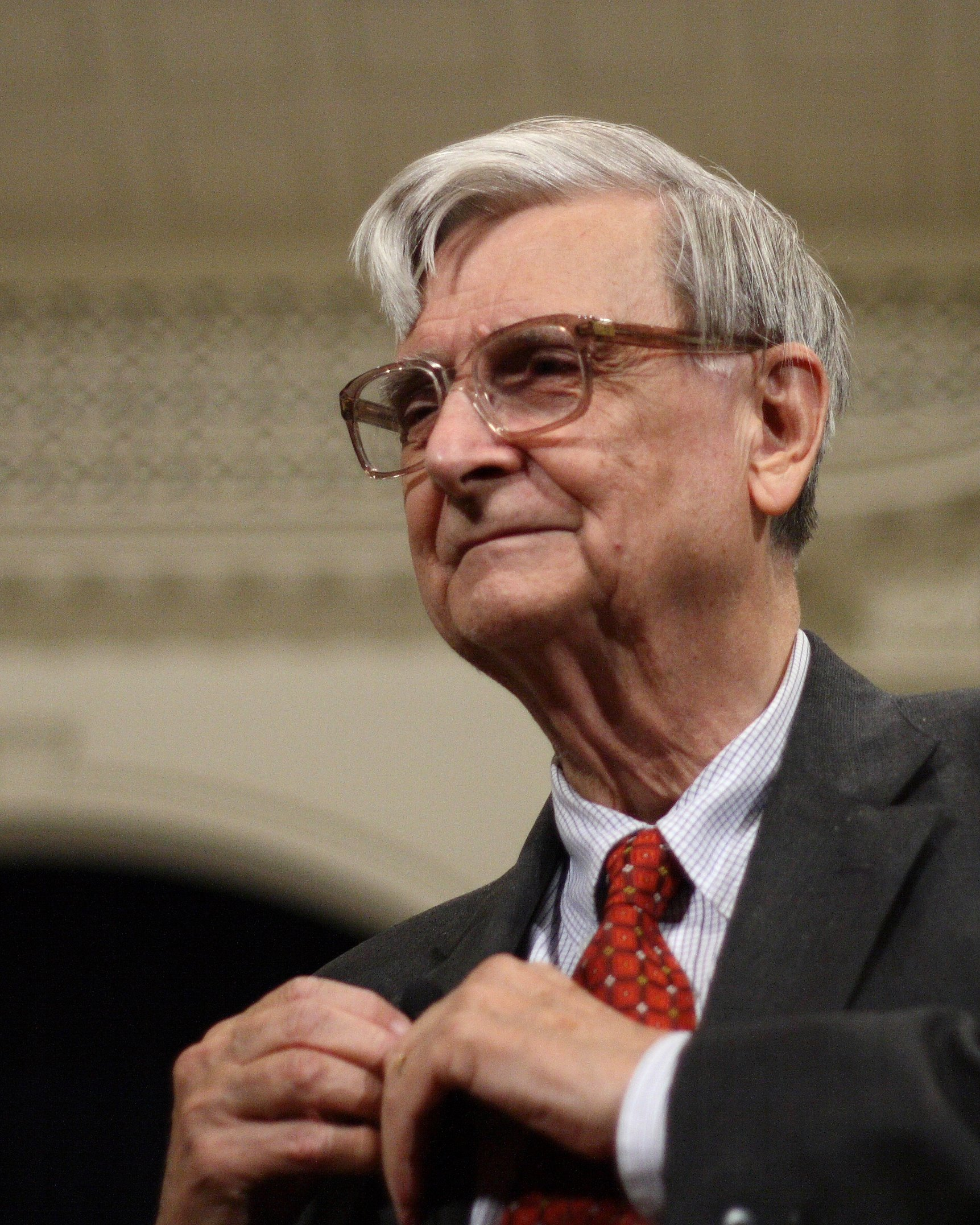 Biologist and conservationist Edward O. Wilson at "fireside chat" at Yale University, at which he was awarded the Addison Emery Verrill Medal from the Peabody Museum of Natural History.